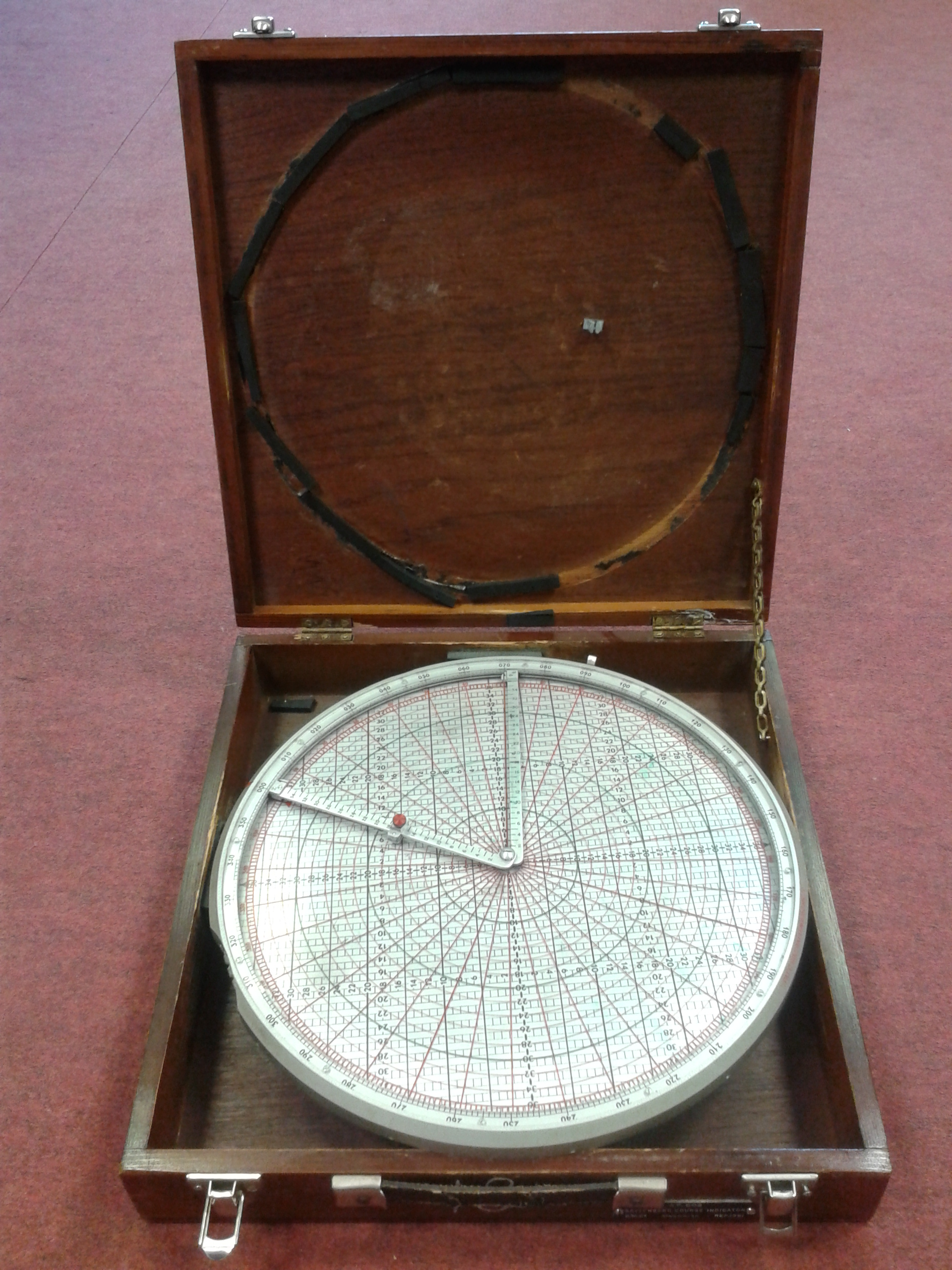 Battenberg Course Indicator Mk VThis photograph shows a somewhat worn example; of note, the green "own ship" marker is missing, although the red "enemy" marker is present on the other arm. The empty clip in the box lid is intended to hold a chinagraph pencil